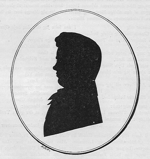 Christian Wilster